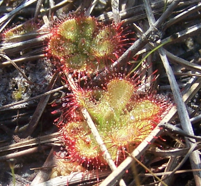 Drosera burmannii in Phukradung, Thailand